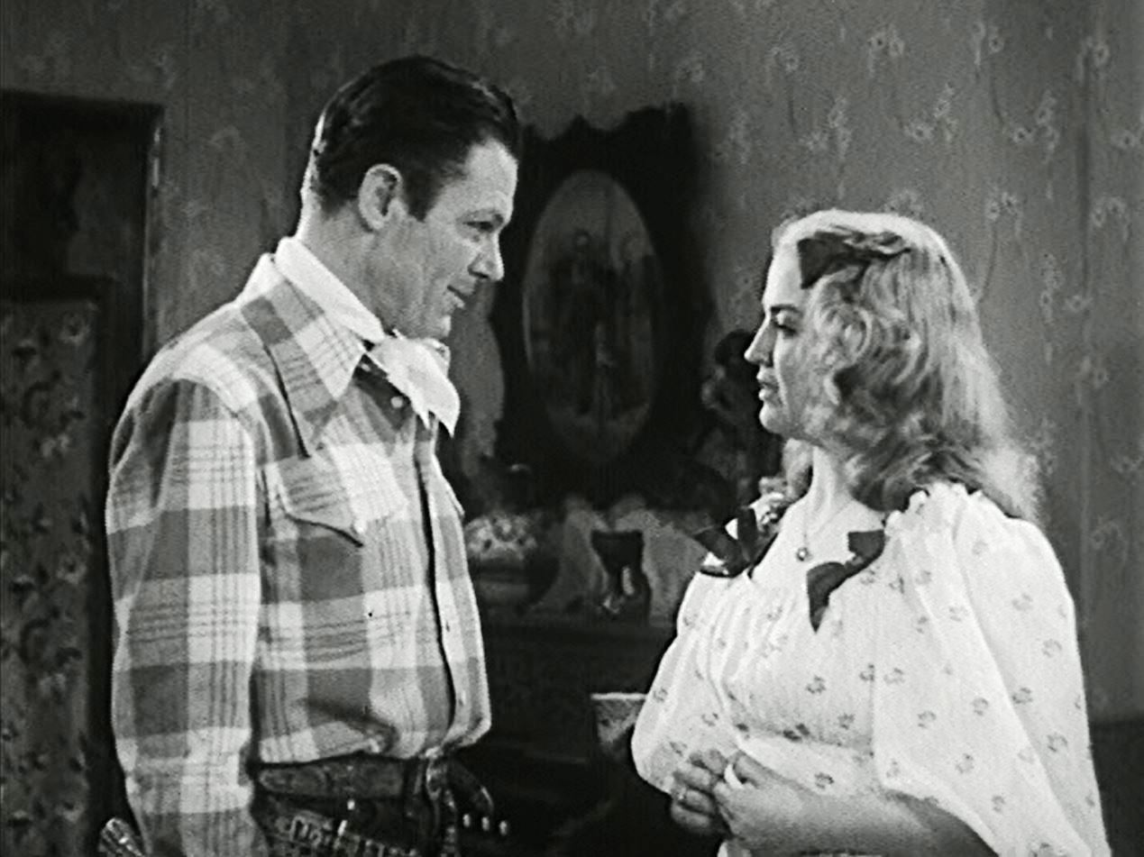 Low resolution screenshot of Tom Keene as Tom Allen and Jean Trent as Julia Webster in the American western film Western Mail (1942). The film is in the public domain due to the copyright not being renewed.